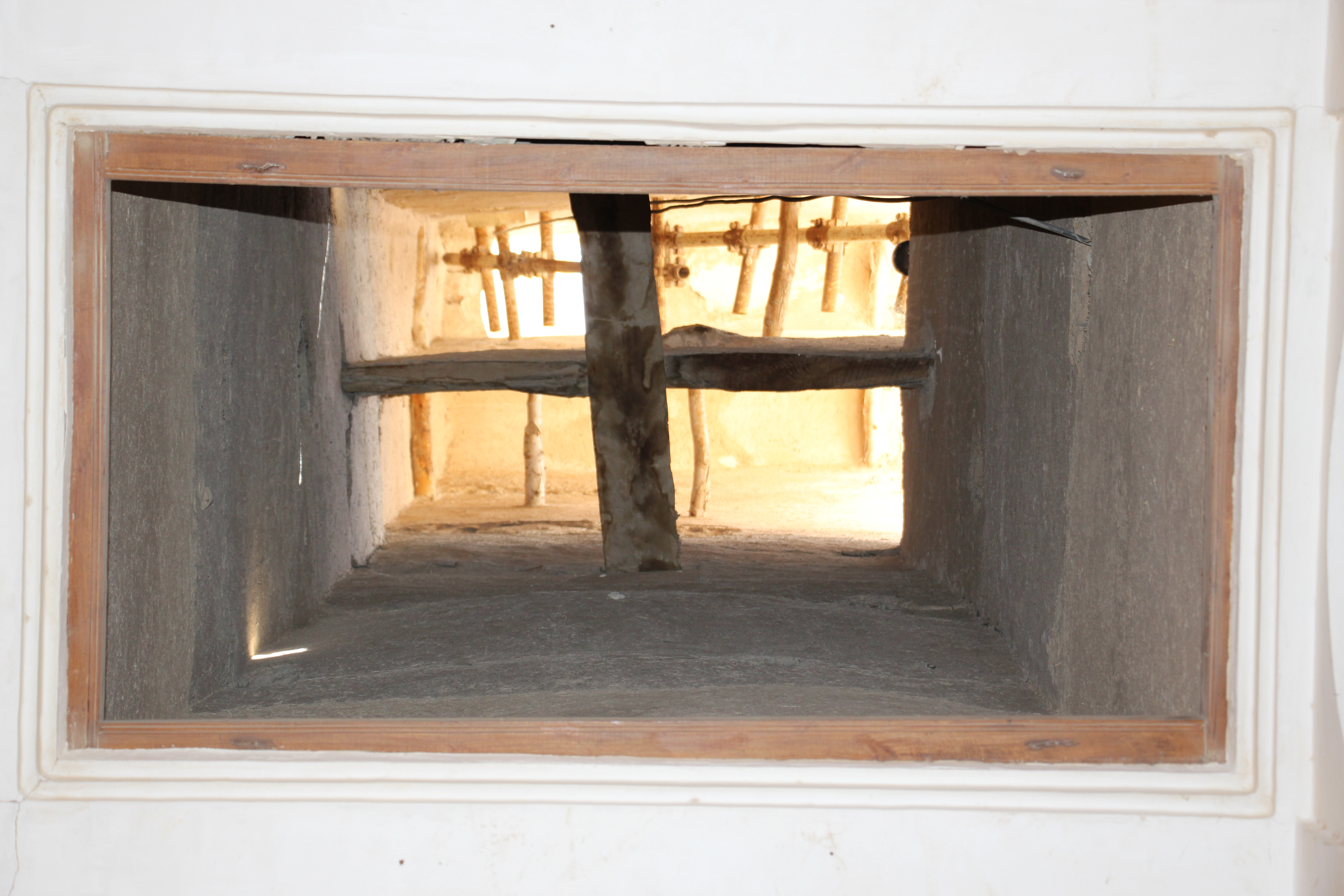 an internal view of windcatcher